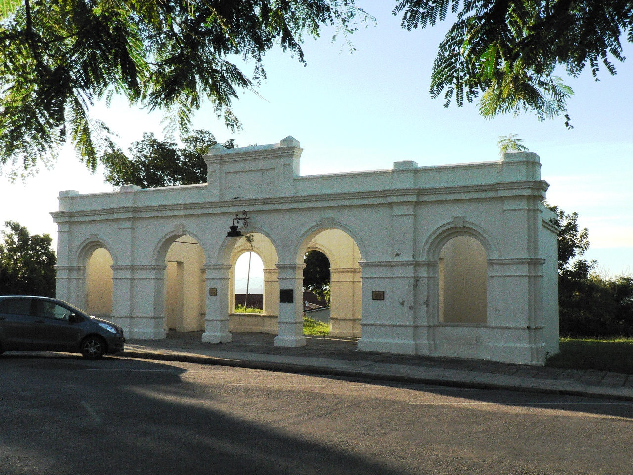 This media shows a South African Protected Site with SAHRA file reference 9/2/203/0008.